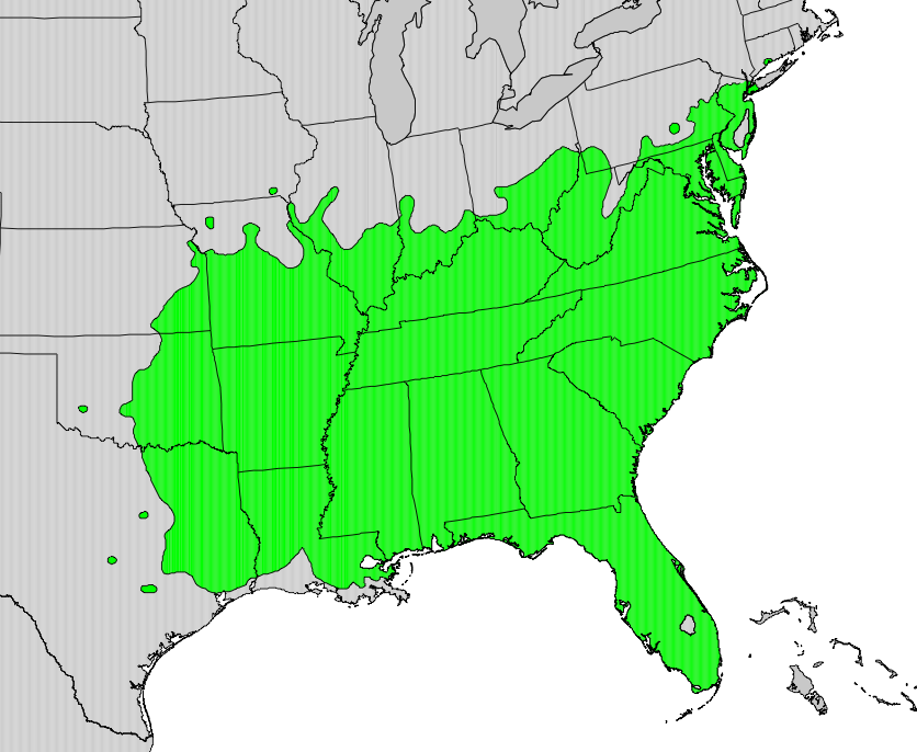 Range distribution map of Diospyros virginiana — American Persimmon.